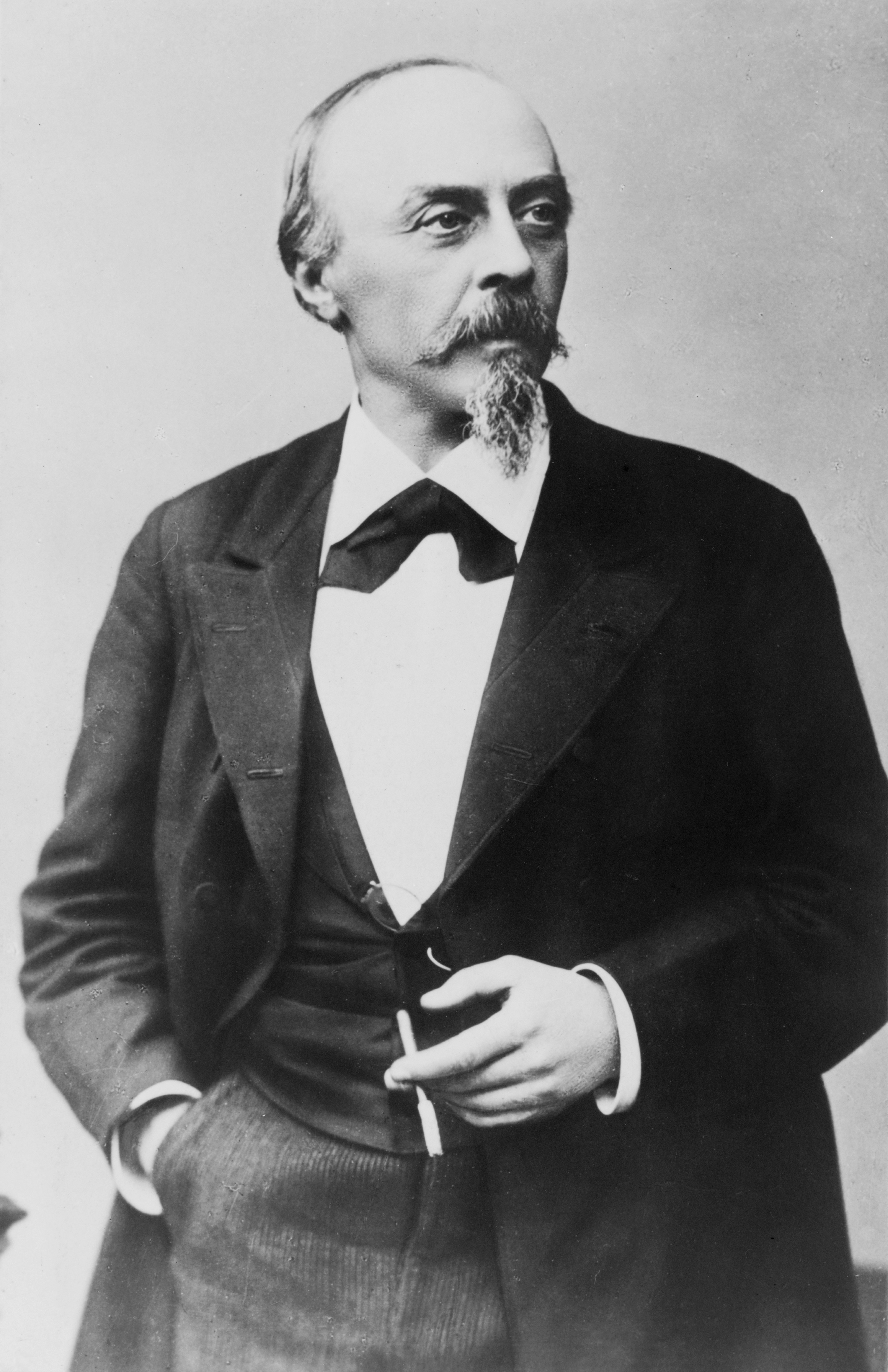 Hans von Bülow, half-length portrait, standing, facing right, holding cigarette in holder. Photographer: E. Bieber, Berlin u. Hamburg, photographer to the court. Published: New York Breitkopf & Härtel, between 1880 and 1894. Bieber sold this work in the form of photo-cards, as evidenced by these copies published in 1889[1] and 1897.[2]